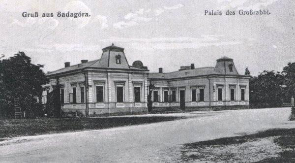 Palace of the Sadigura rebbe in Sadhora, Ukraine.